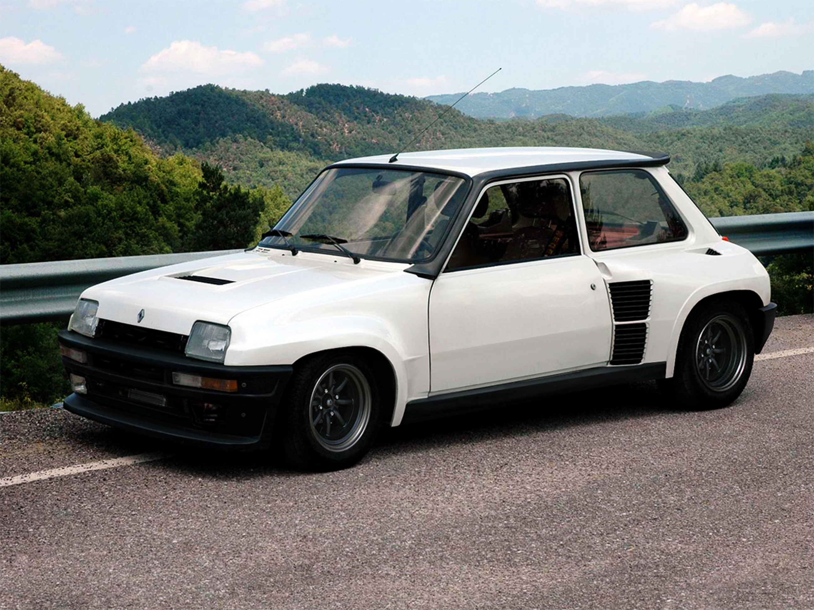 Renault 5 Turbo